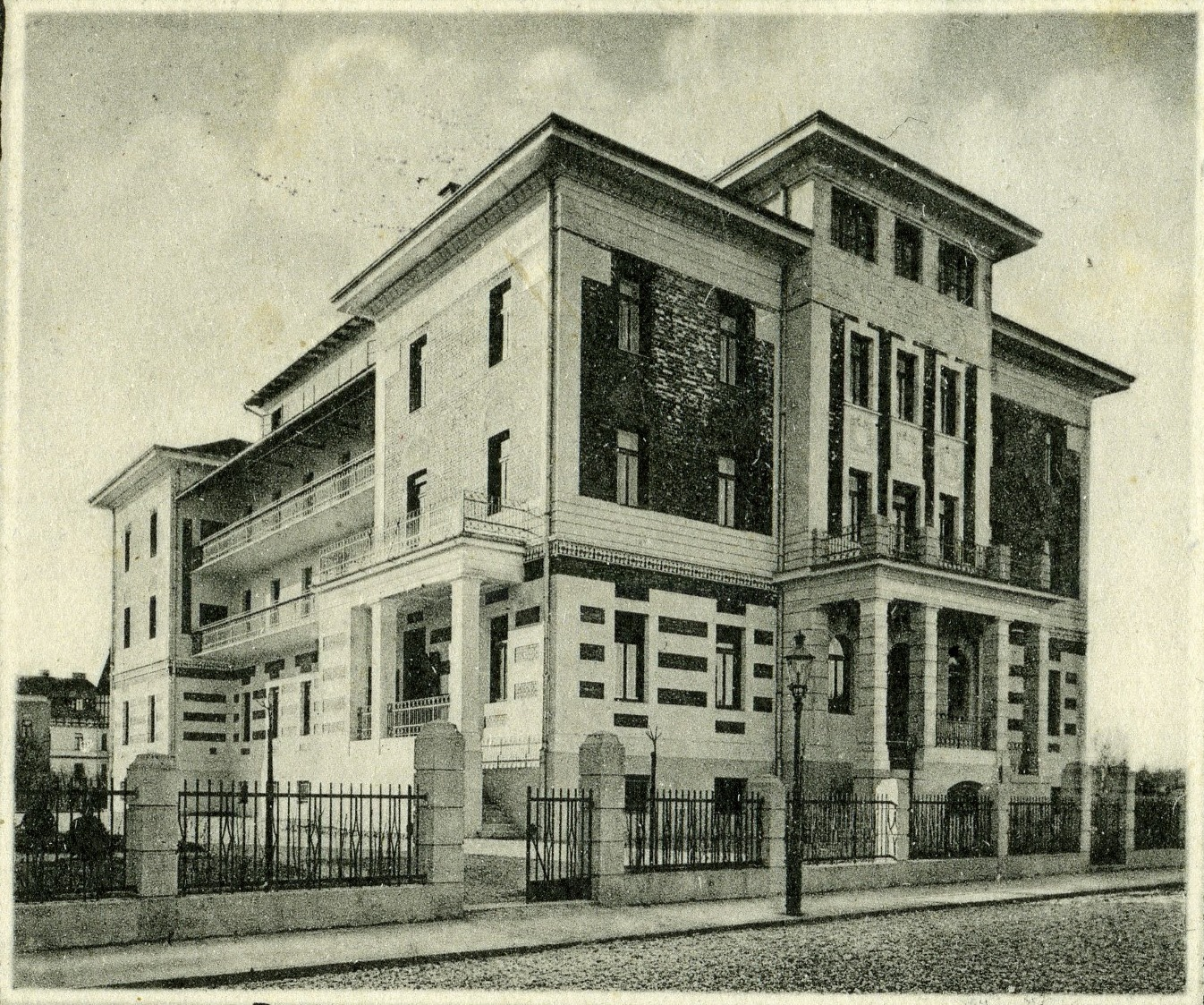 Postcard of Ljubljana, Internat Mladika.